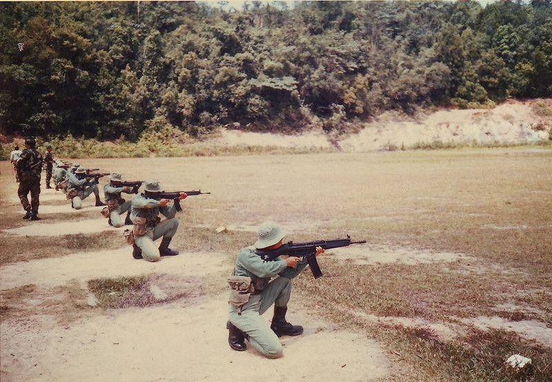 Soldiers of Rejimen Askar Wataniah in a shooting course, armed with the HK33A2, circa 1990s.